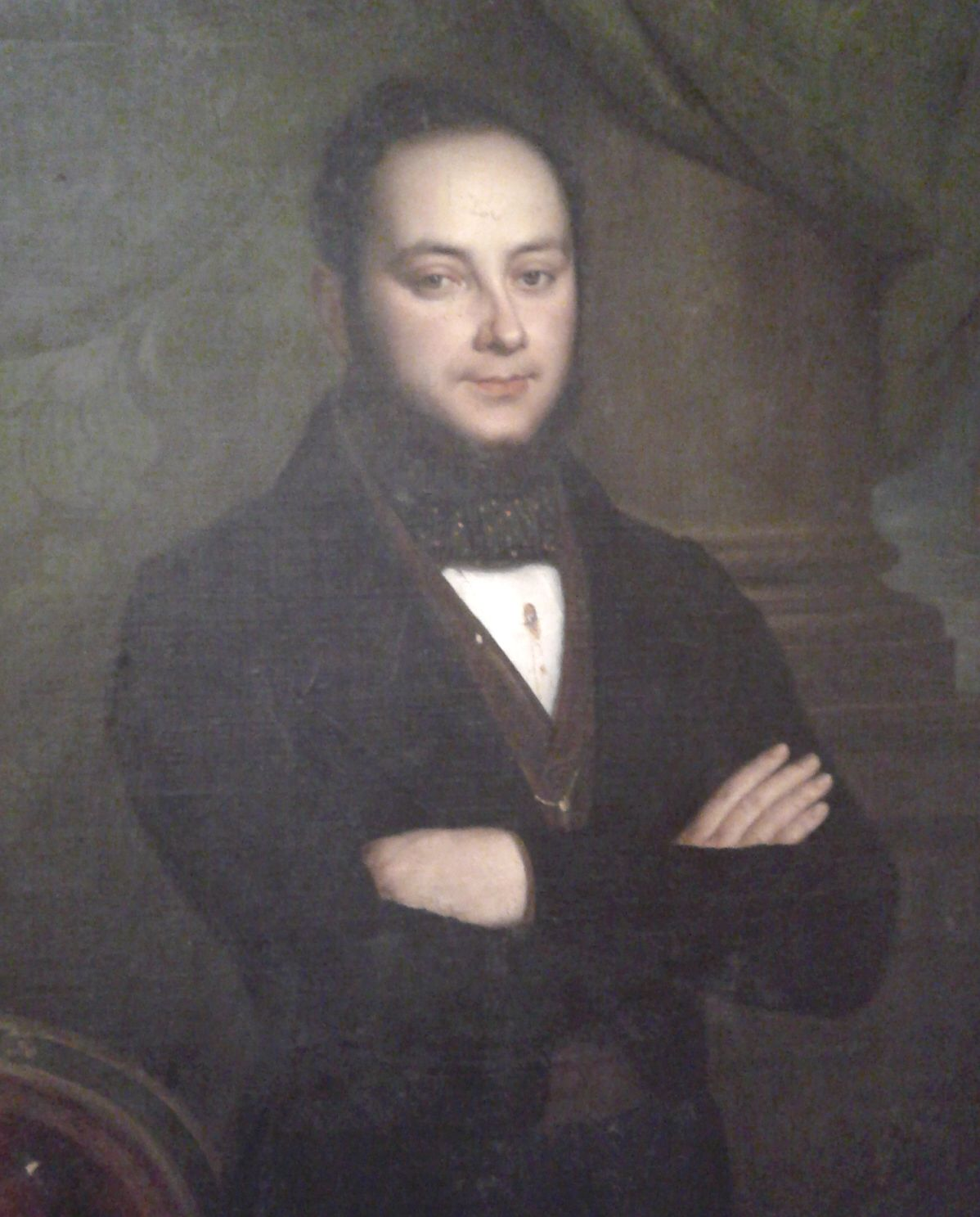 Portrait of Cavour in 1841